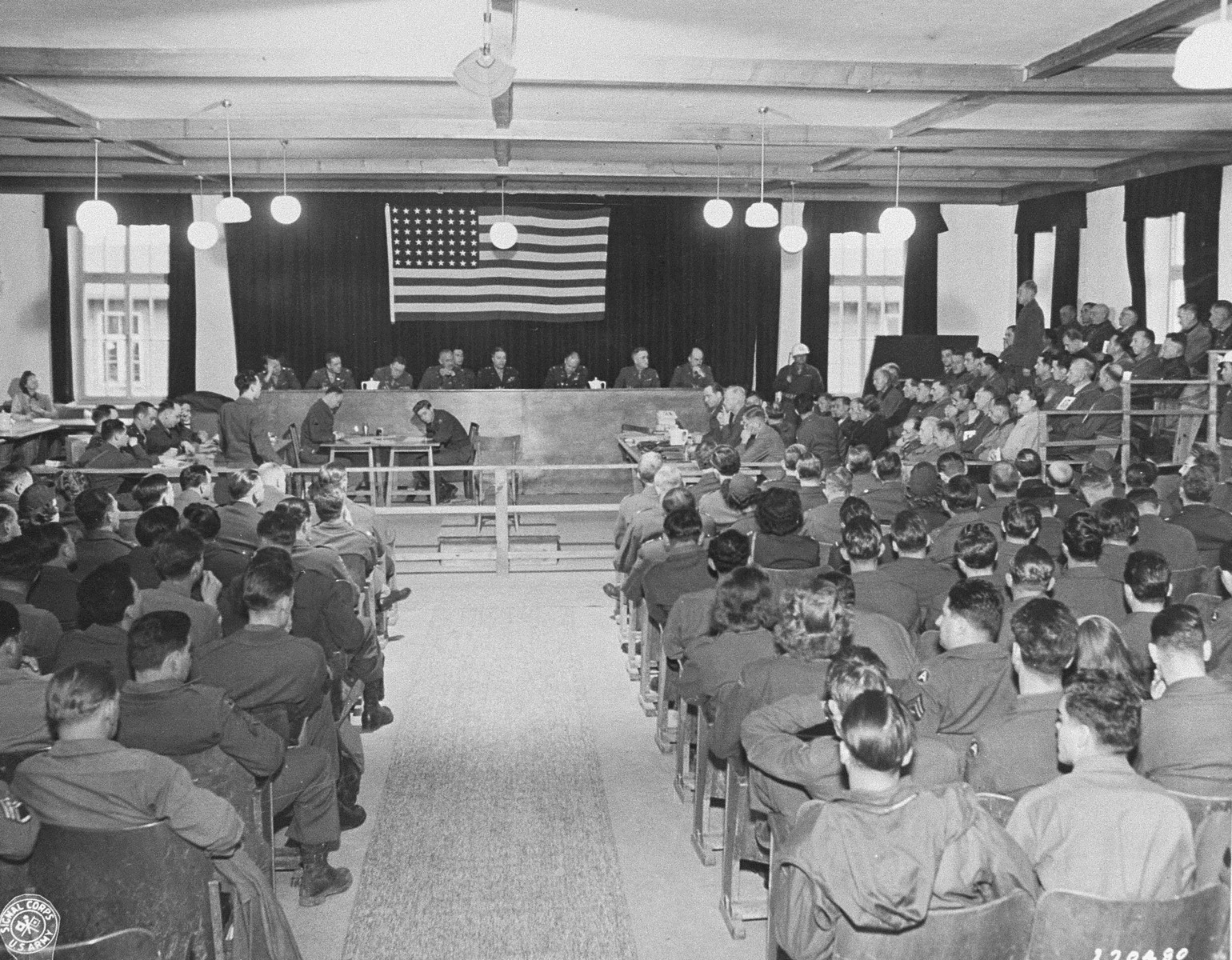 The courtroom at Dachau during the trial of former camp personnel and prisoners from the Dachau concentration camp.